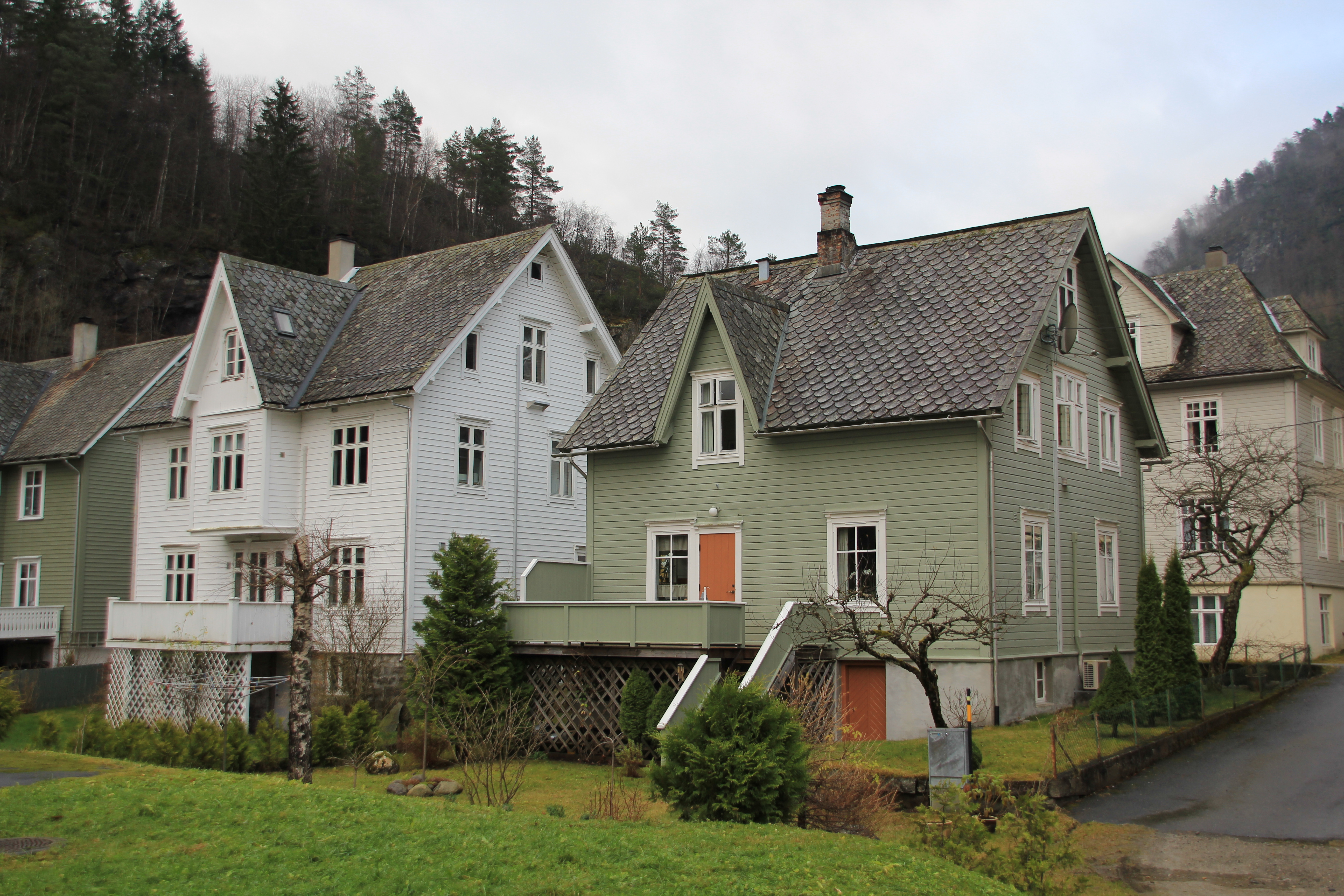 Traditional Norwegian houses at Evanger, Norway